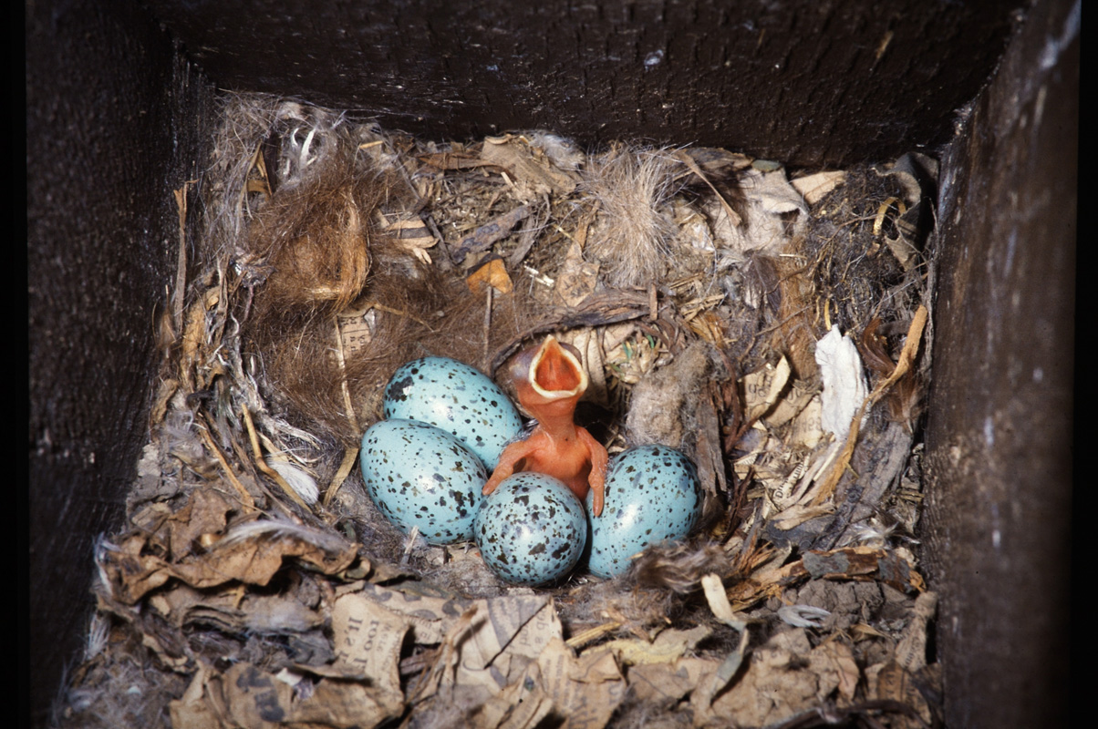 The nest box containing jackdaw chick and eggs that author has helped construct and erect with a local conservation organisation, The Halesowen Wildlife Group.